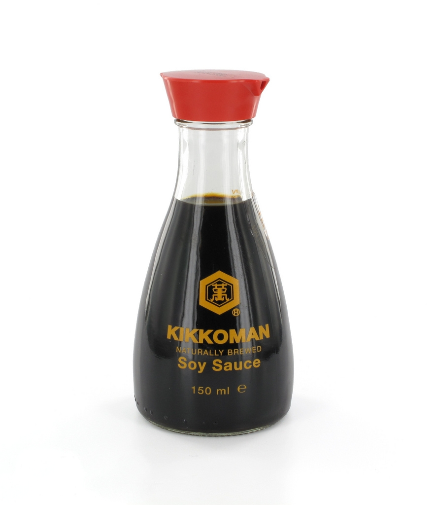 Image of a bottle of kikkoman soy sauce taken with a PackshotCreator photo studio by Creative Tools AB.